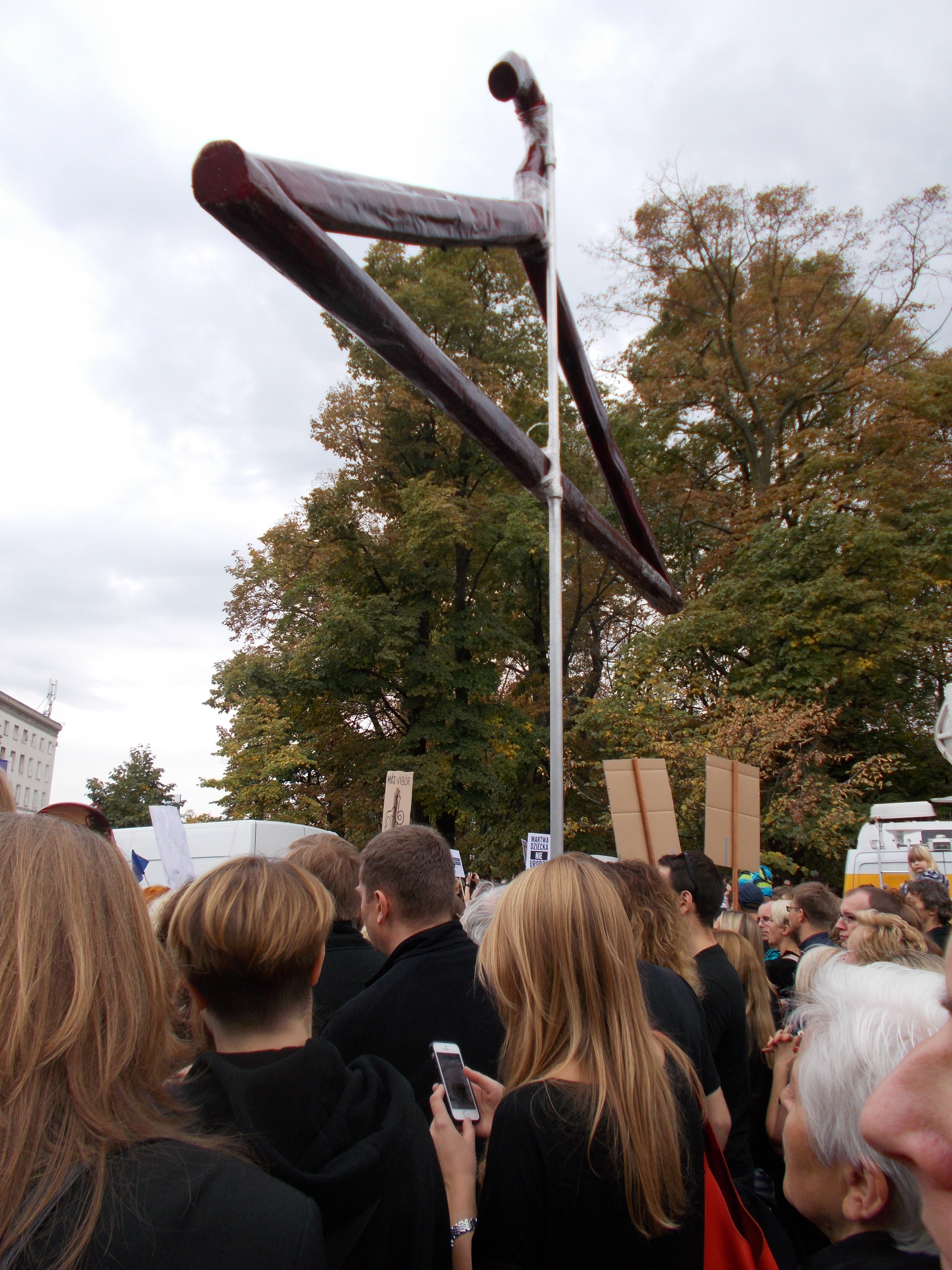 Black protest of initiative Save the Women 2016 10 01 in Warsaw